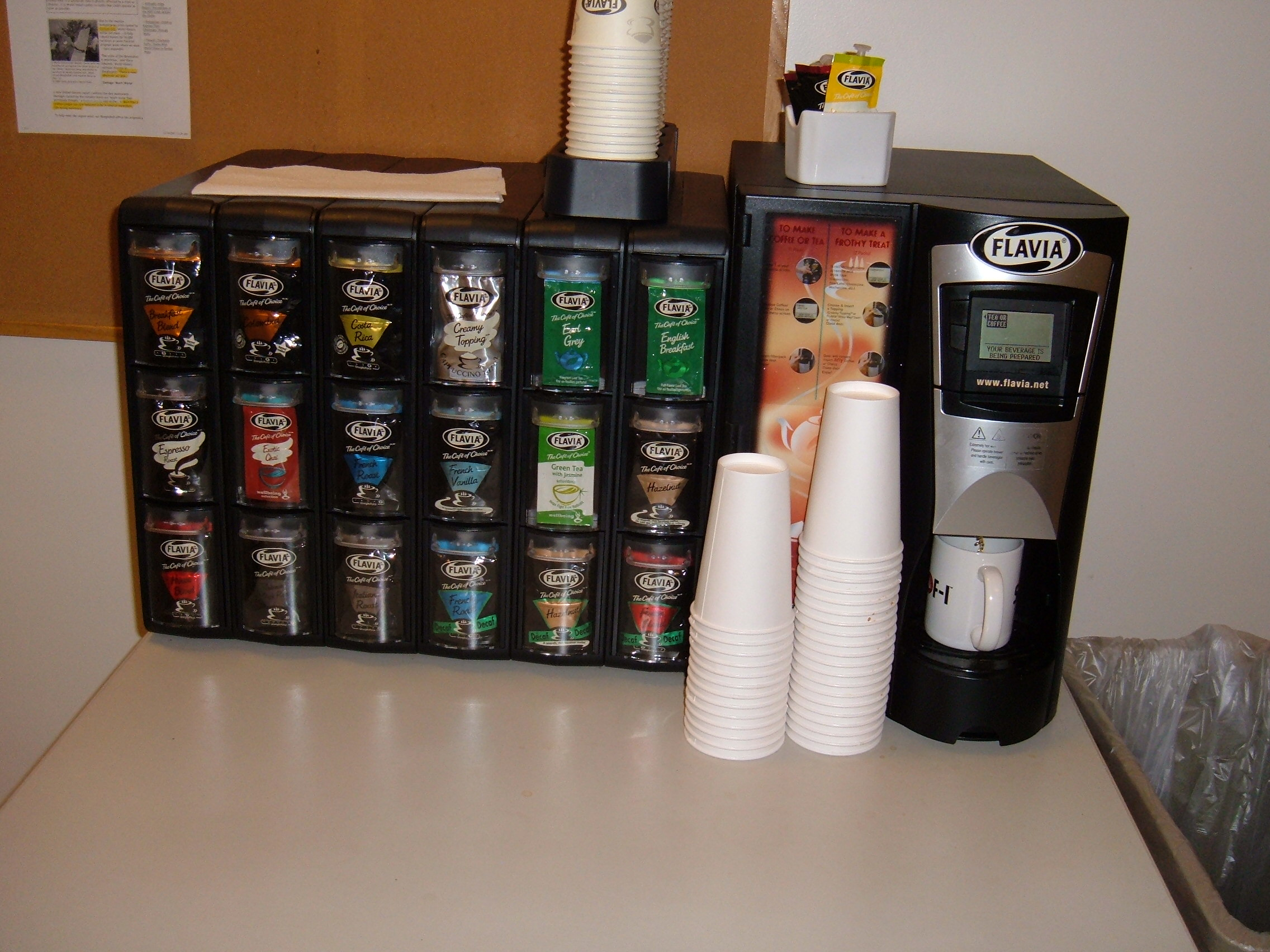 A Flavia coffee machine in operation with drink tray racks (left)